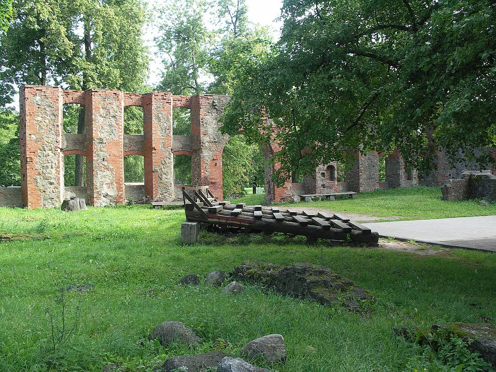 Grobiņa Castle ruins, interior